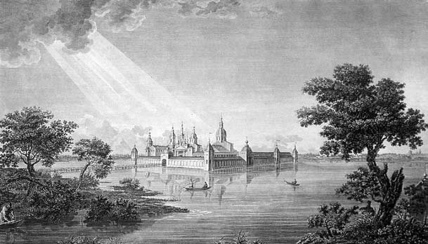 Novoezersky Monastery near Belozersk, Russia, 1823.